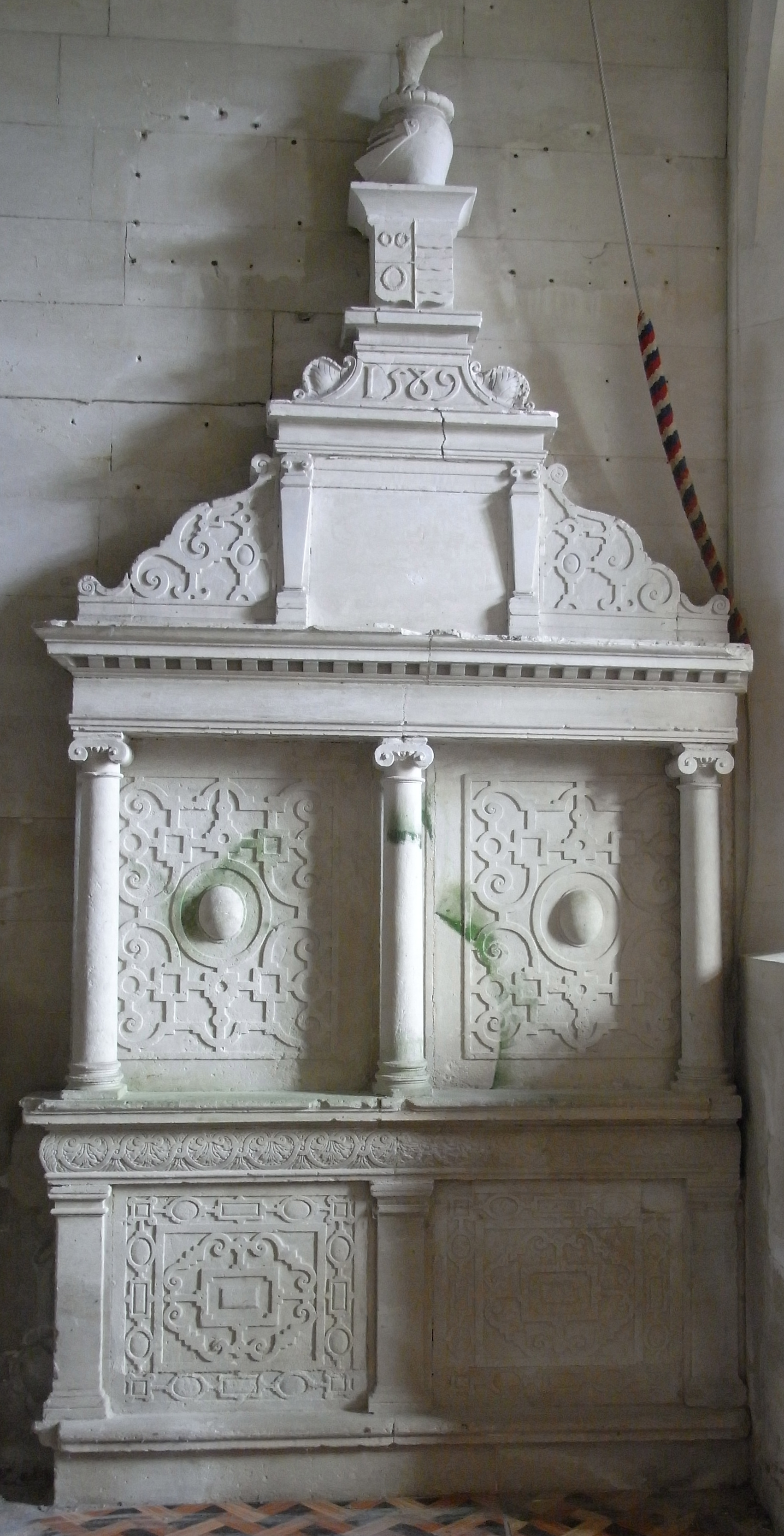 Elaborate white Beer stone monument sculpted with strapwork decoration, showing the prominent date "1589" but missing other inscription, standing against the east wall in the south transept of Otterton Church, Devon. It appears to commemorate the marriage of Richard III Duke (1567-1641) of Otterton, (whose monumental brass plaque survives on the west wall of Otterton Church but was formerly affixed as one of a pair to the side of this monument as the fixing holes show), son and heir of Richard II Duke, to Margaret Bassett, daughter of Sir Arthur Bassett (d.1586), MP, of Umberleigh. At its top it shows the arms of Duke impaling Bassett, with the Duke crest above, a griffin holding in its claws a chaplet, mutilated. The date 1589 appears to refer to the date of their marriage.